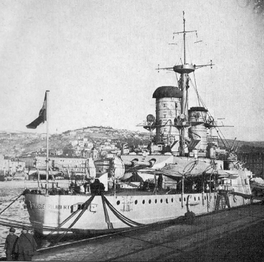 Italian battleship Emanuele Filiberto at Fiume in late 1918 after the end of World War I